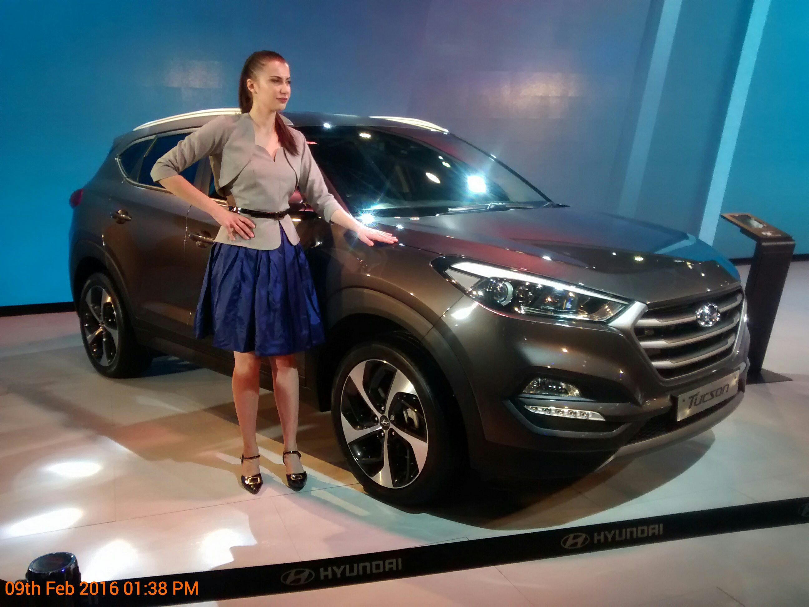 The 2016 Hyundai Tucson at display at the 13th Auto Expo, Greater Noida.